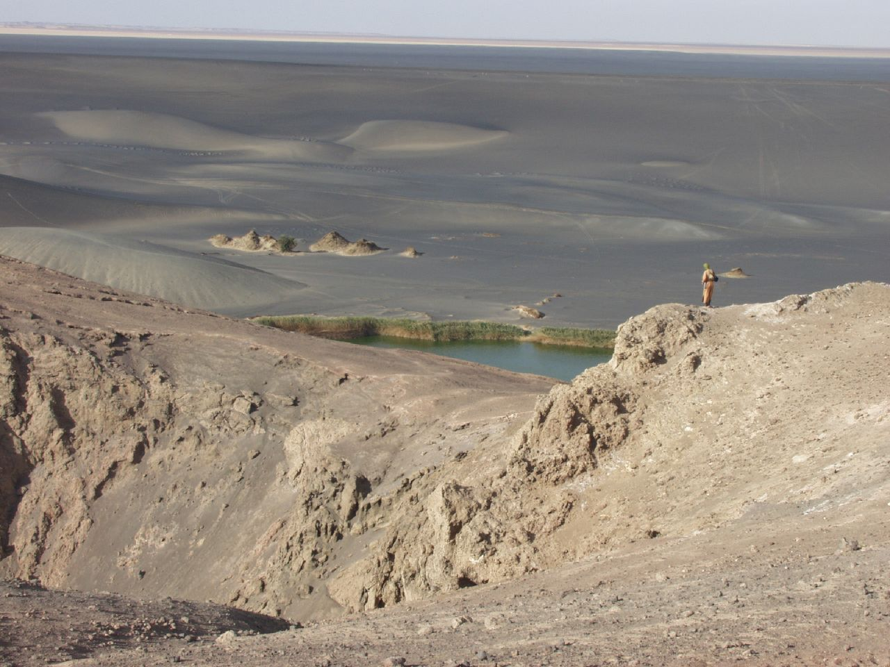 waw an namus ÙˆØ§Ùˆ Ø§Ù„Ù†Ø§Ù…ÙˆØ³ (Libya)